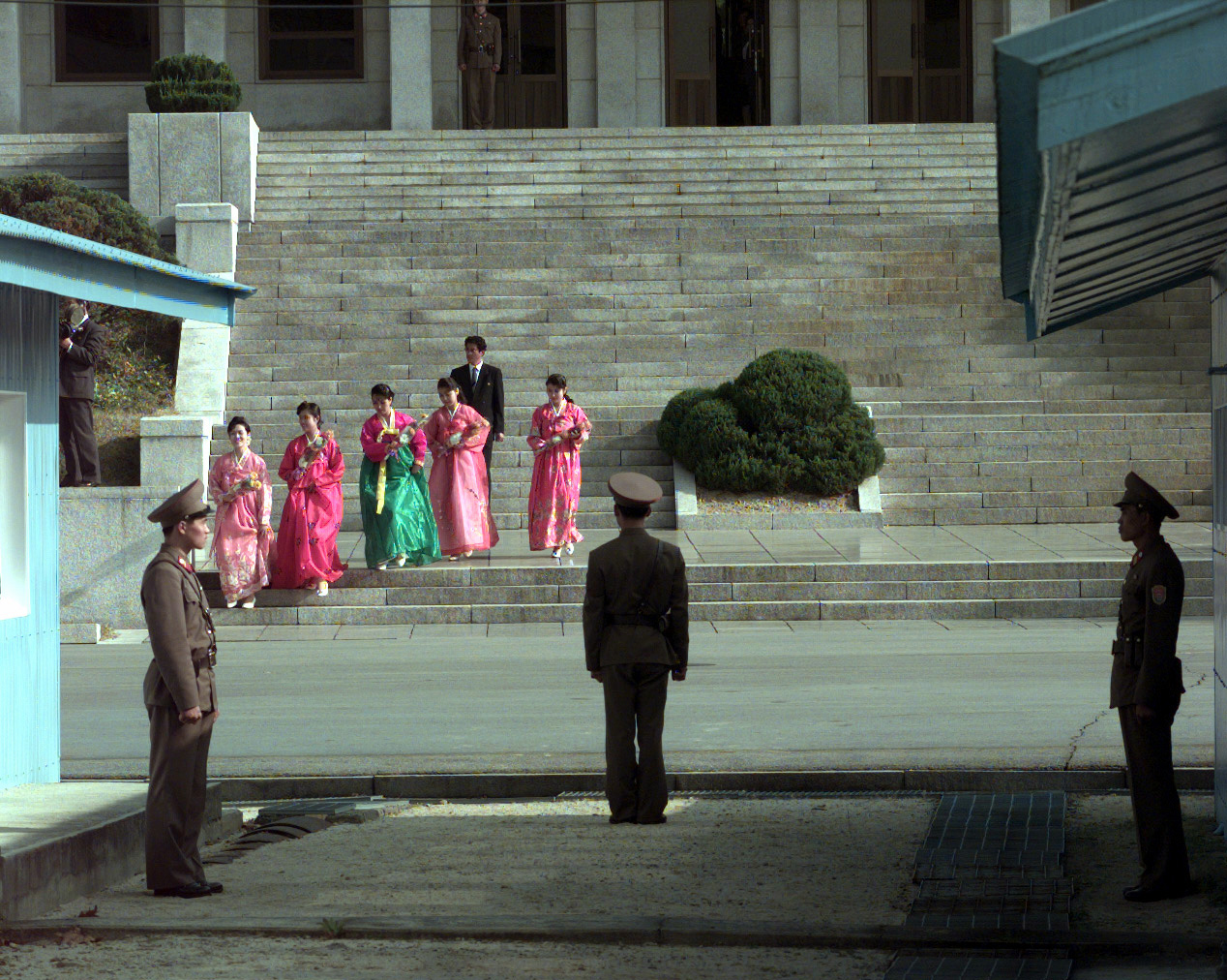 Ladies from North Korea wearing traditional hanbok leave Panmungak to present gifts to South Korean business tycoon Chung Ju-yung, Oct. 27, 1998. Prior to the caravan of 501 cattle and 50 vehicles entering the Communist North Korea, Chung, founder and honorary chairman of Hyundai Group, donated 501 head of cattle and the vehicles to the famine-stricken country of North Korea. Mr. Chung had given the North Koreans 500 head of cattle earlier this year in June.